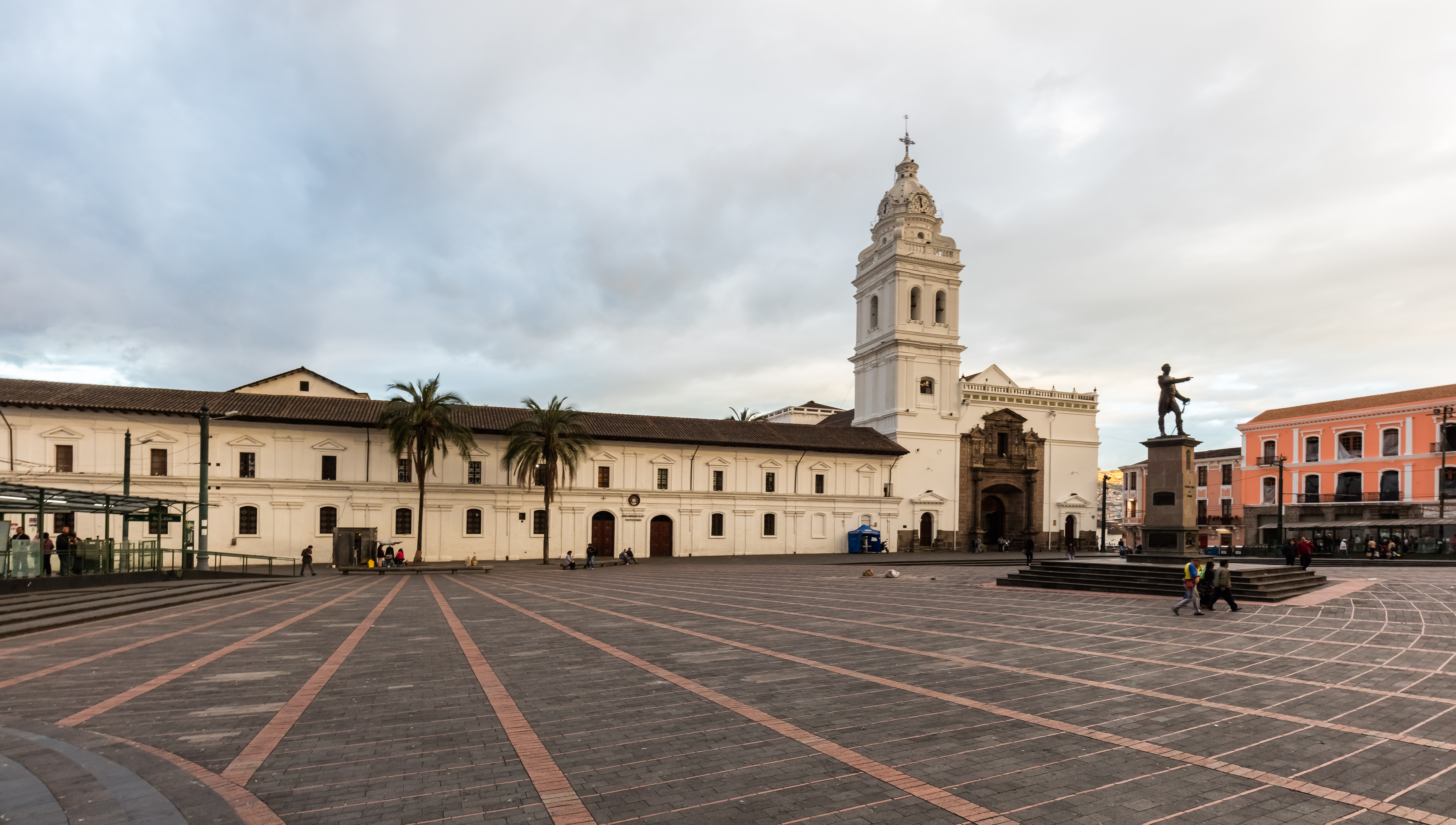 Church of Santo Domingo, Quito, Ecuador